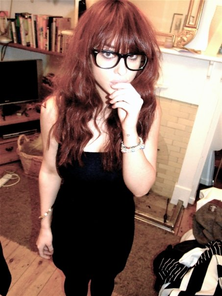 Foxes (Singer)